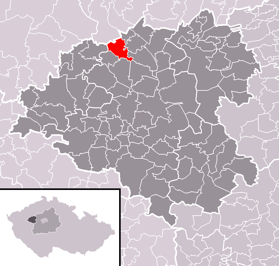 Location of Svojetín municipality within Rakovník District and (identical) administrative area of Rakovník as a Municipality with Extended Competence.